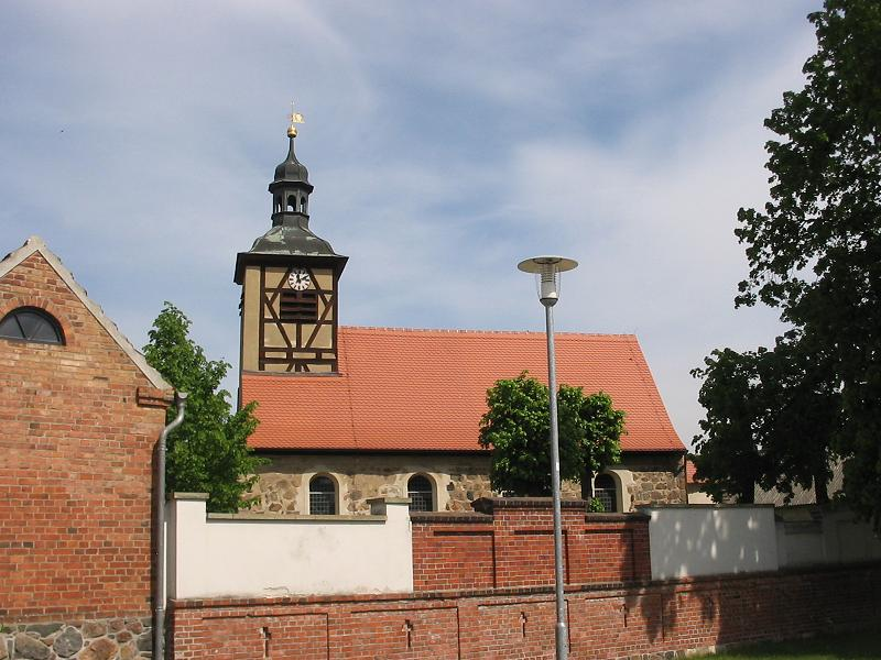 Stonechurch in the village Schwanebeck, built probably in 14th century. Schwanebeck is an incorporated part of the town Belzig in Brandenburg, Germany.